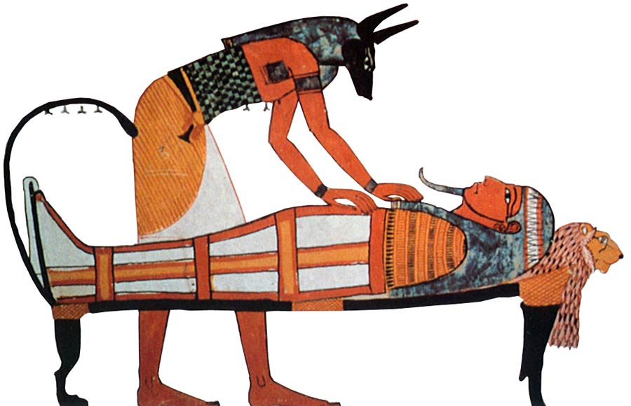 Guden for død og balsamering, Anubis, med sjakalhodet over Sennedjens mumie i Theben. - The God for the dead, Anubis, preparing the body of Sennedjen in Theben.-O Deus dos mortos, Anúbis, preparando o corpo de Sennedjen no Tebas